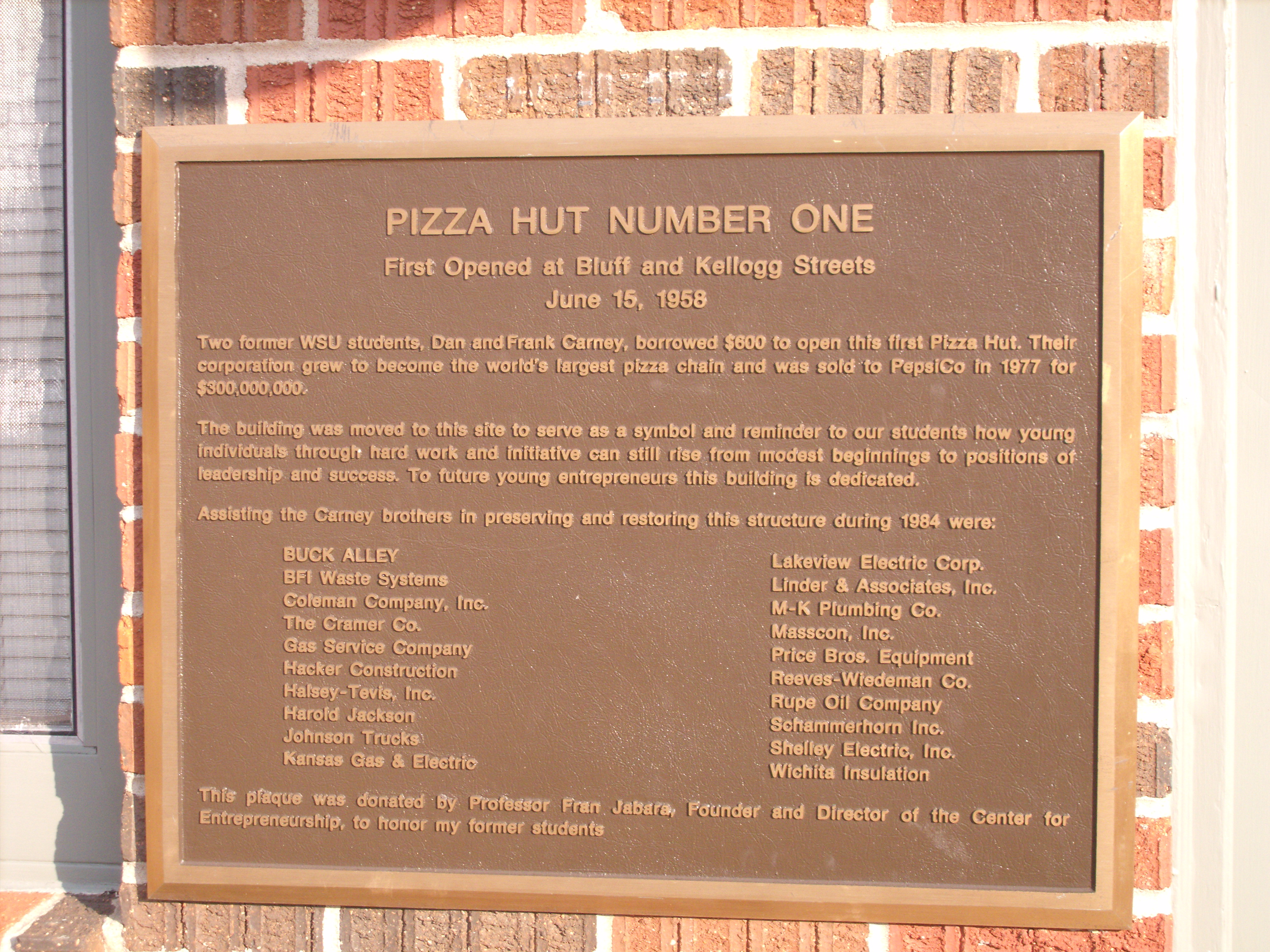 A picture of a plaque at the first Pizza Hut building, November 2007.